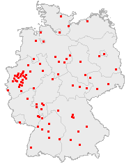 Positions of cities in Germany